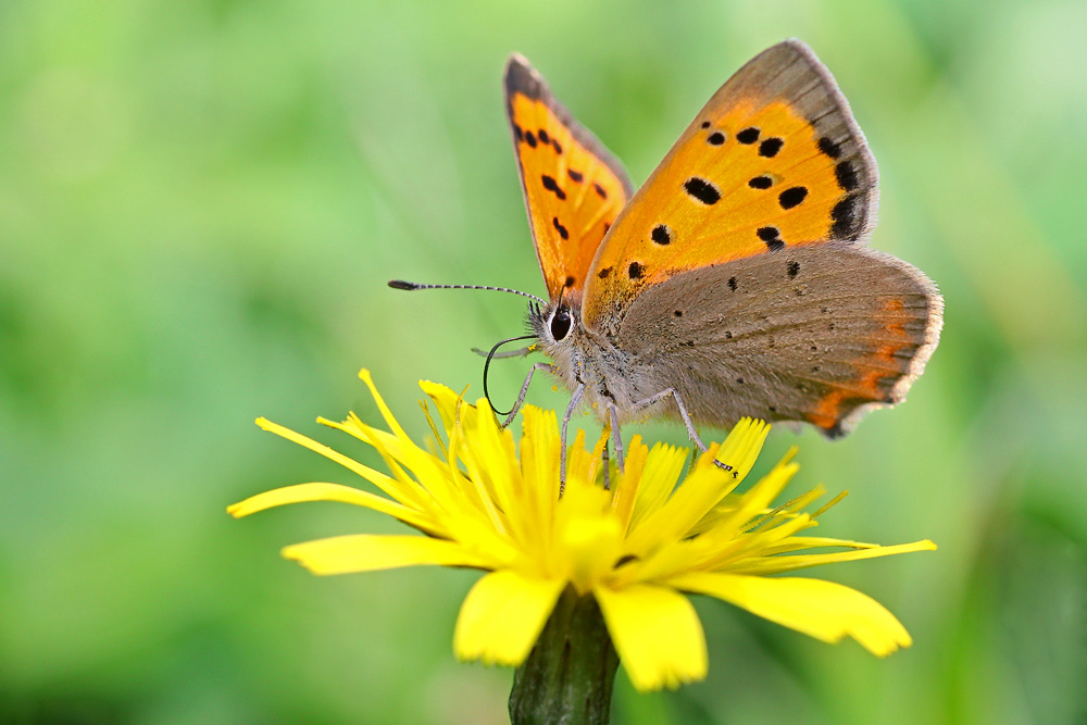 Lycaena phlaeas